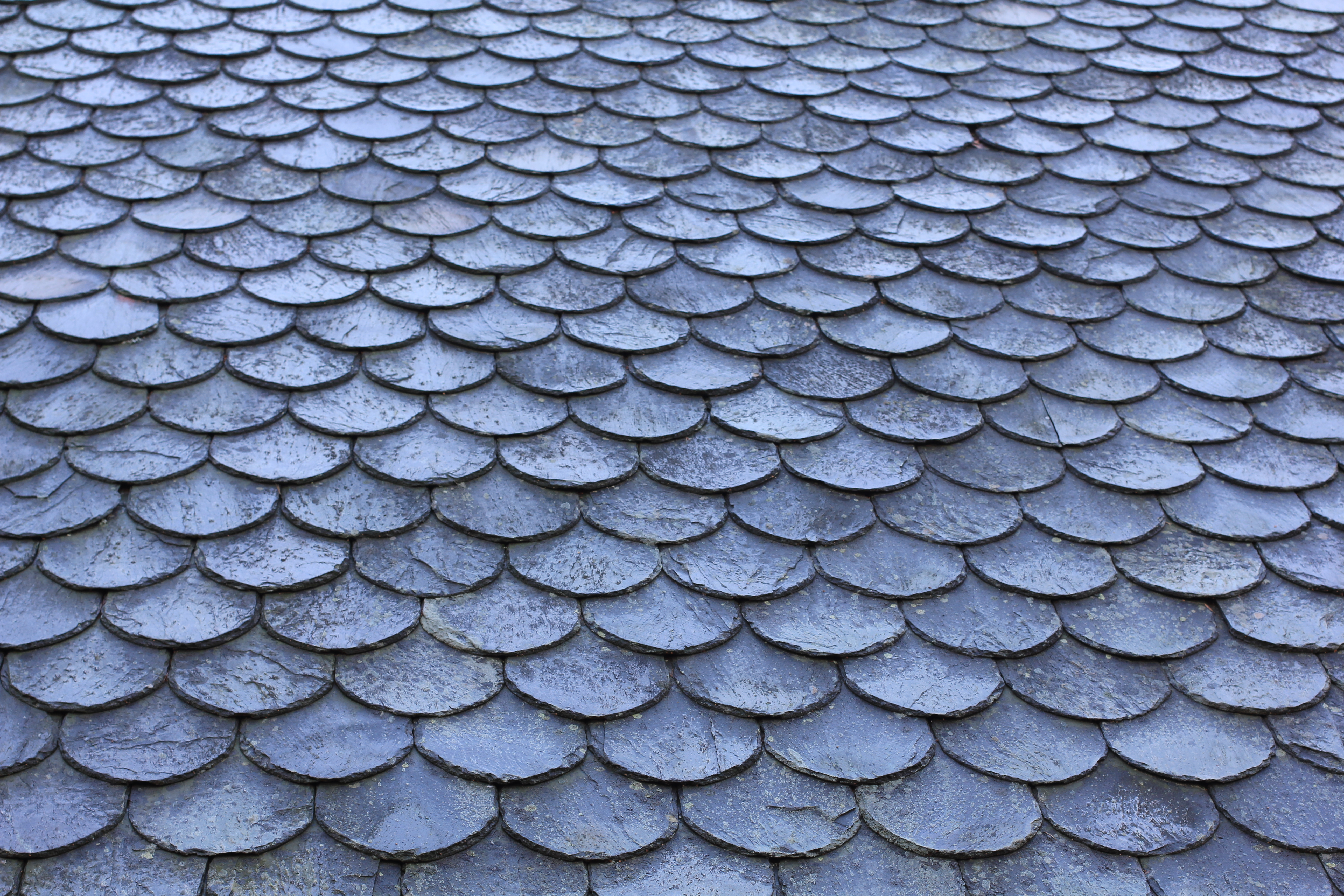 Roof slates on a Norwegian house